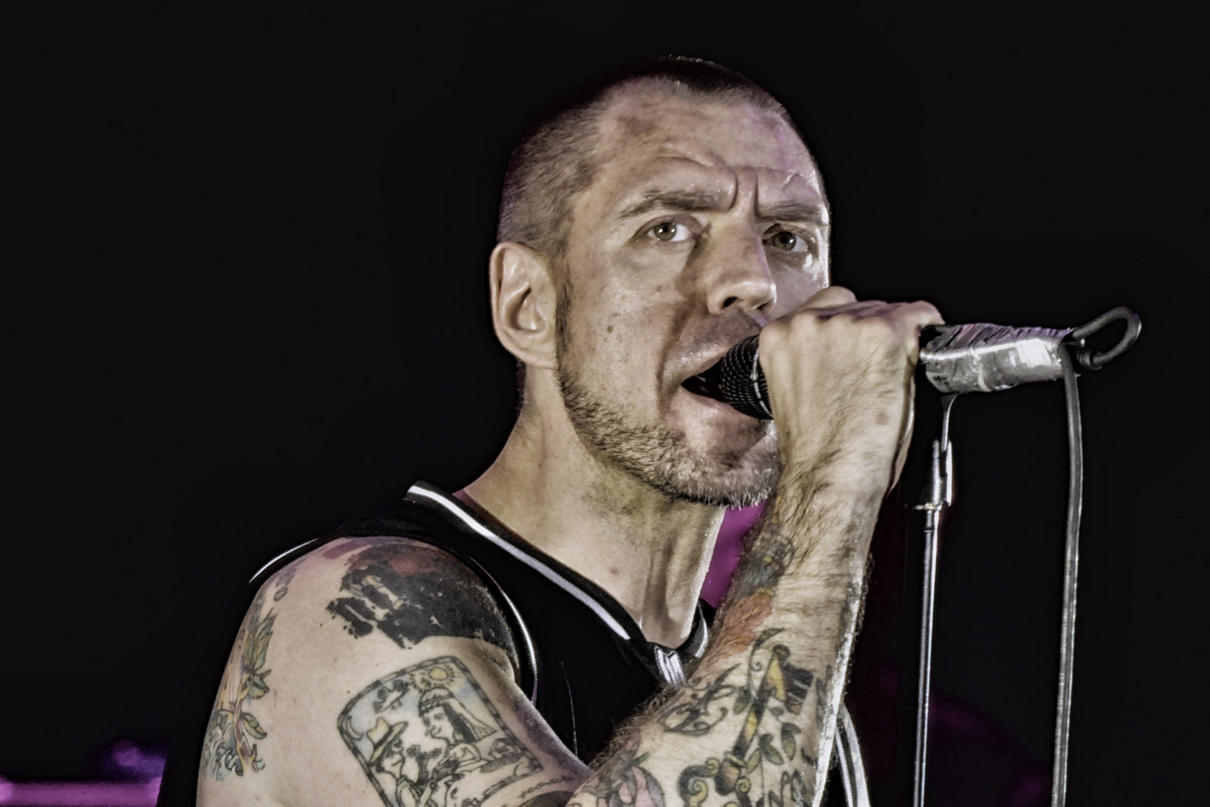 Lyapis Trubetskoy, Siarhiej Michałok. Concert at Chernihiv, 2014